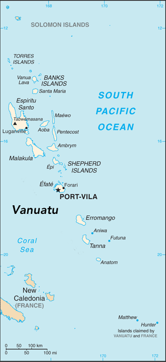 Map of Vanuatu based on Public Domain map downloaded from CIA website